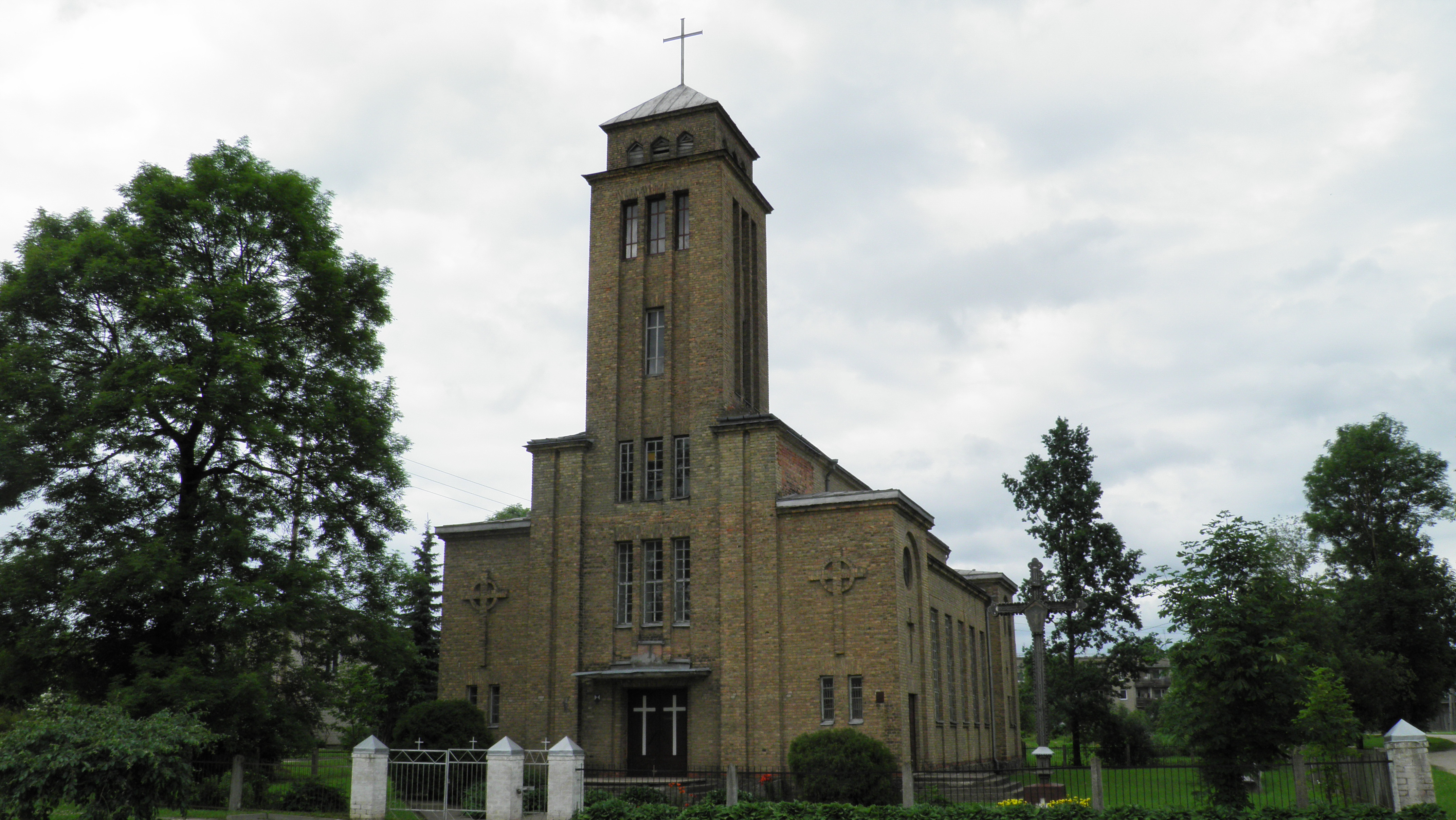 church